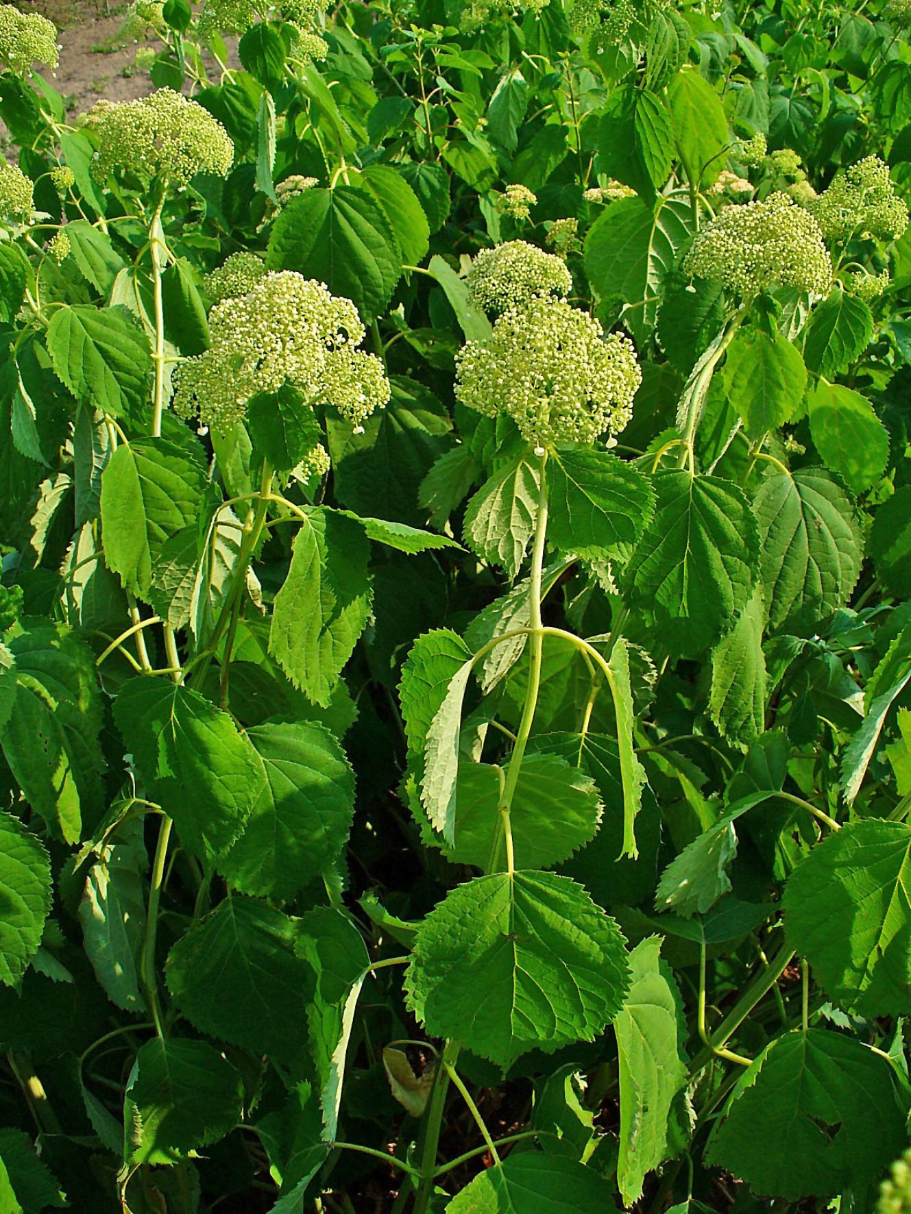 Hydrangea arborescens, Hydrangeaceae, Smooth Hydrangea, habitus. The fresh, underground parts are used in homeopathy as remedy: Hydrangea arborescens (Hydrang.)